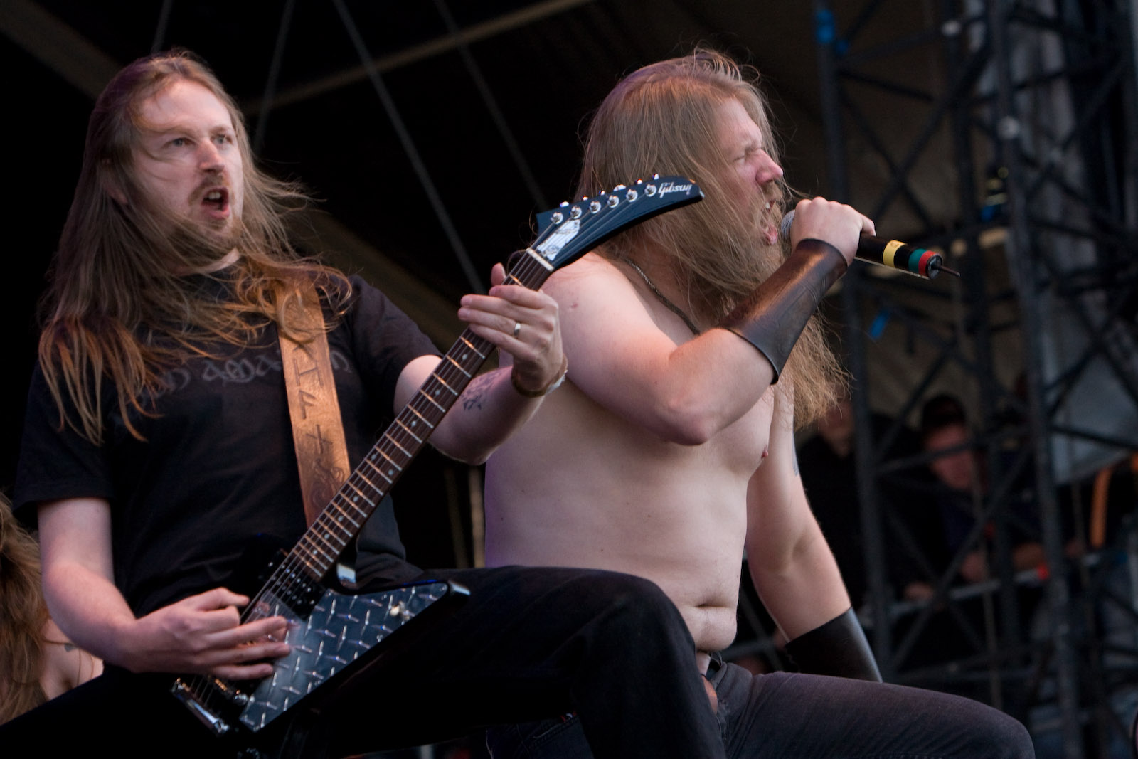 Johan Söderberg and Johan Hegg of Amon Amarth